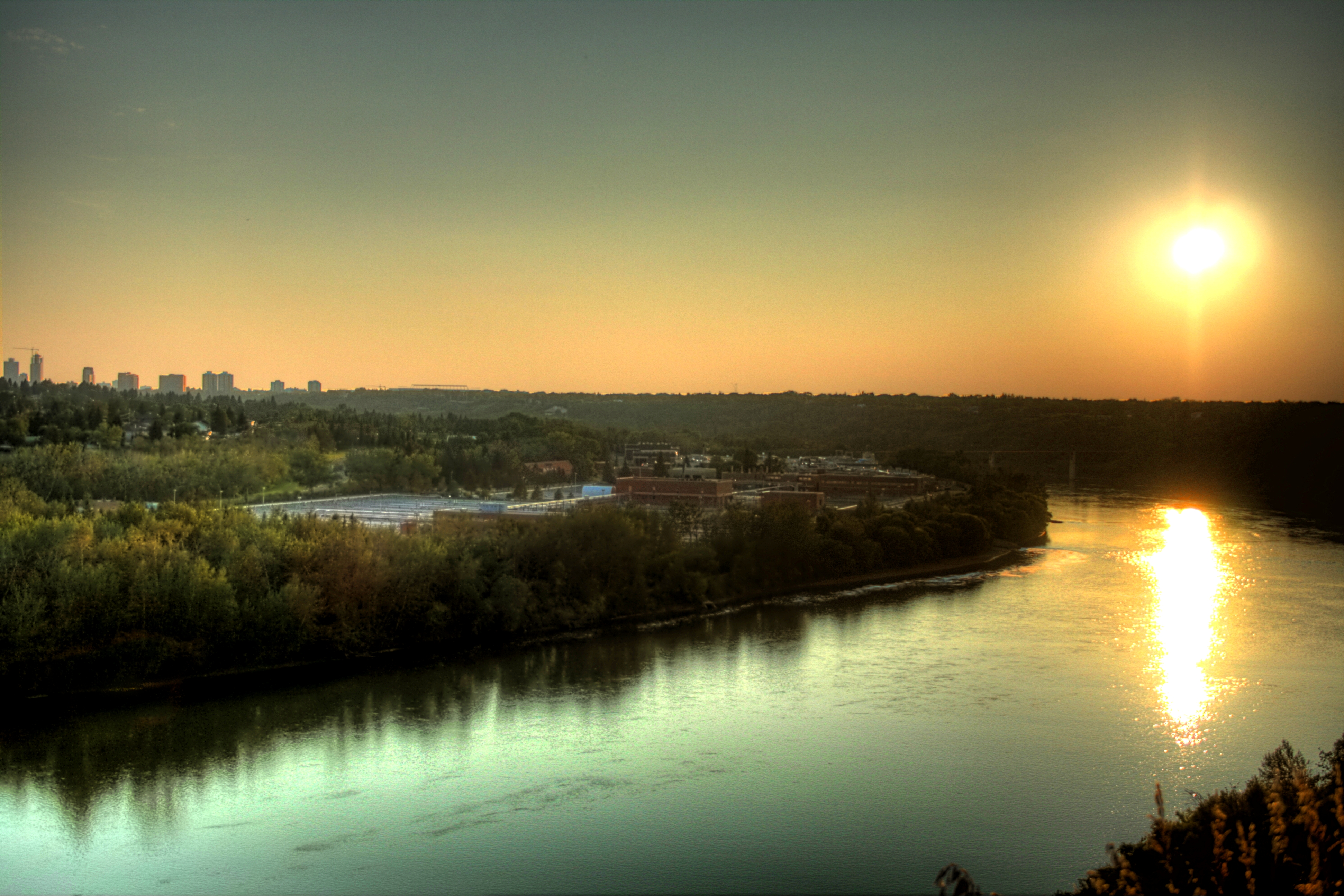 The North Saskatchewan River Valley viewed from the east end of Edmonton, Alberta, Canada.